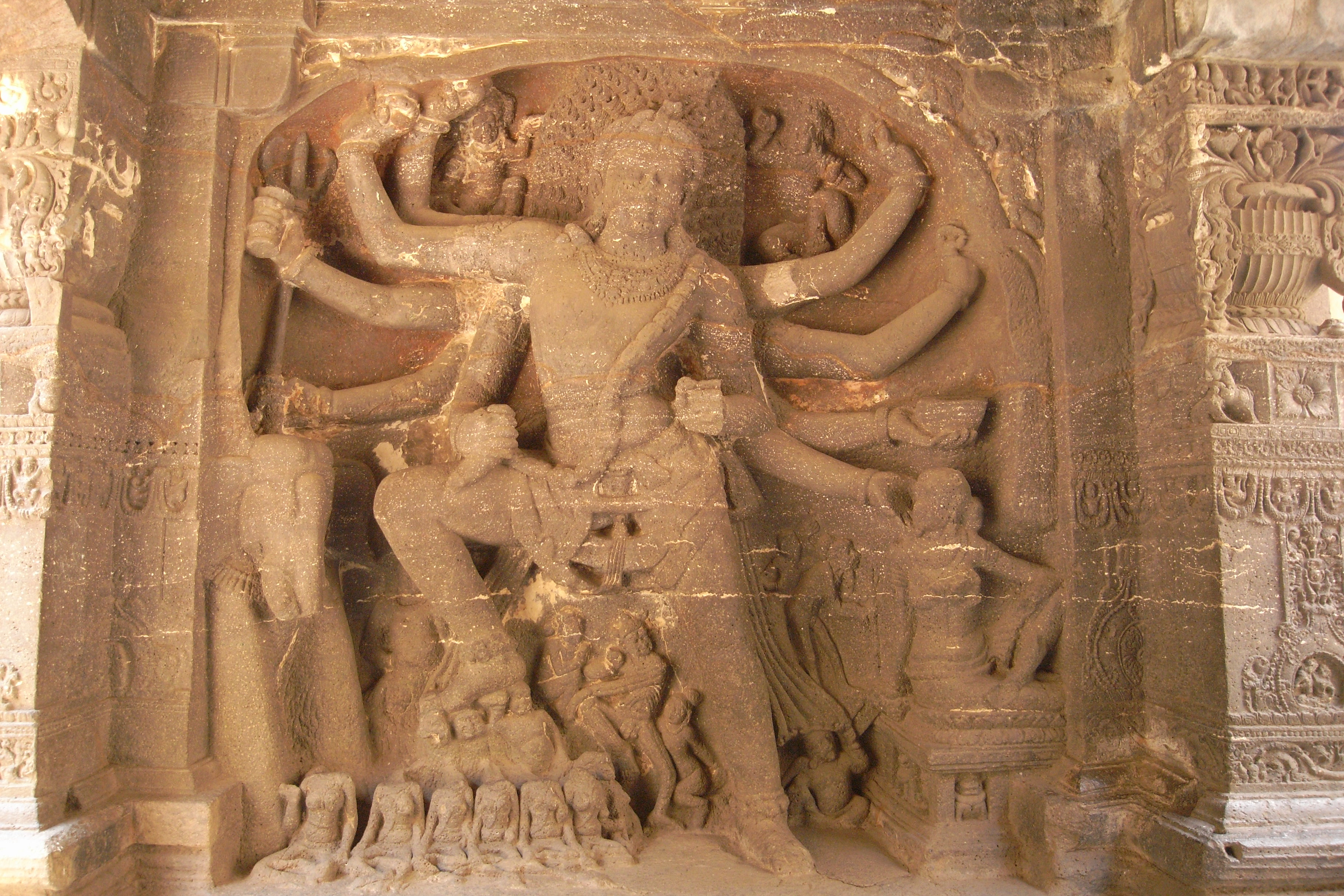 A sculpture of Bhairava, a fierce form of Shiva, at Ellora Caves in Maharashtra, India